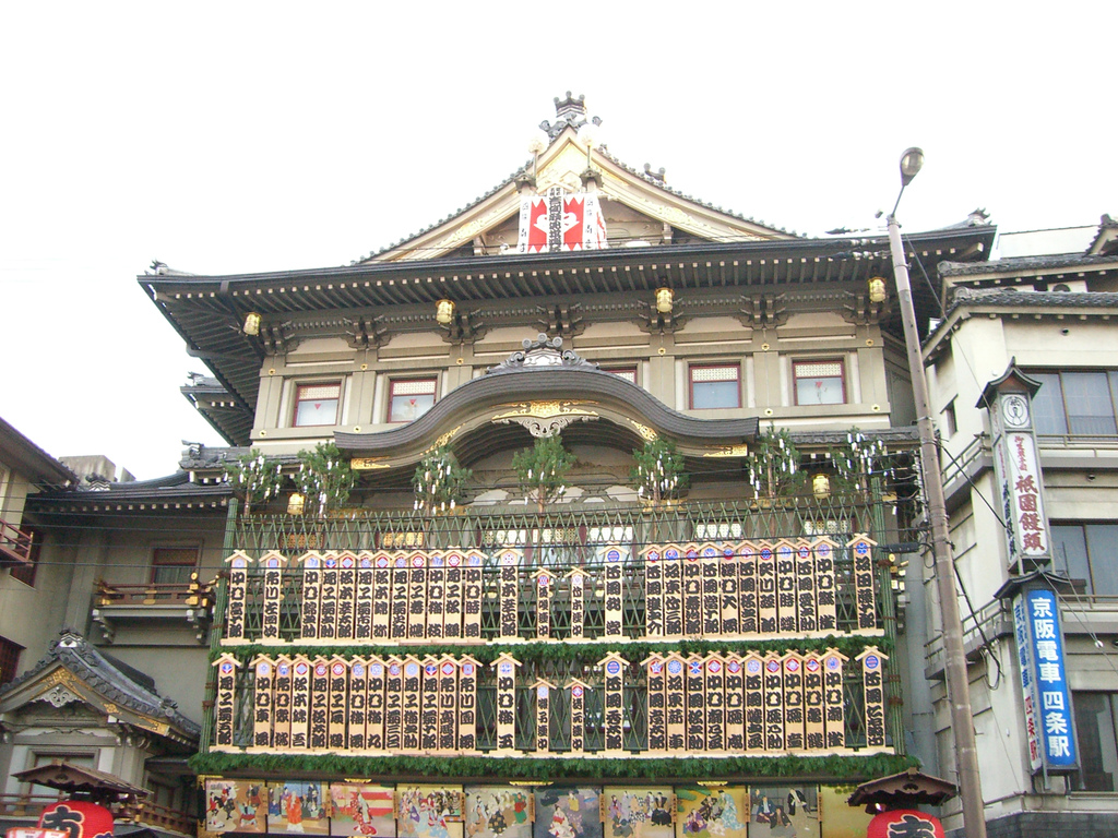 Kabuki theaters in Kyoto "Minamiza", the day of Kaomise, Maneki